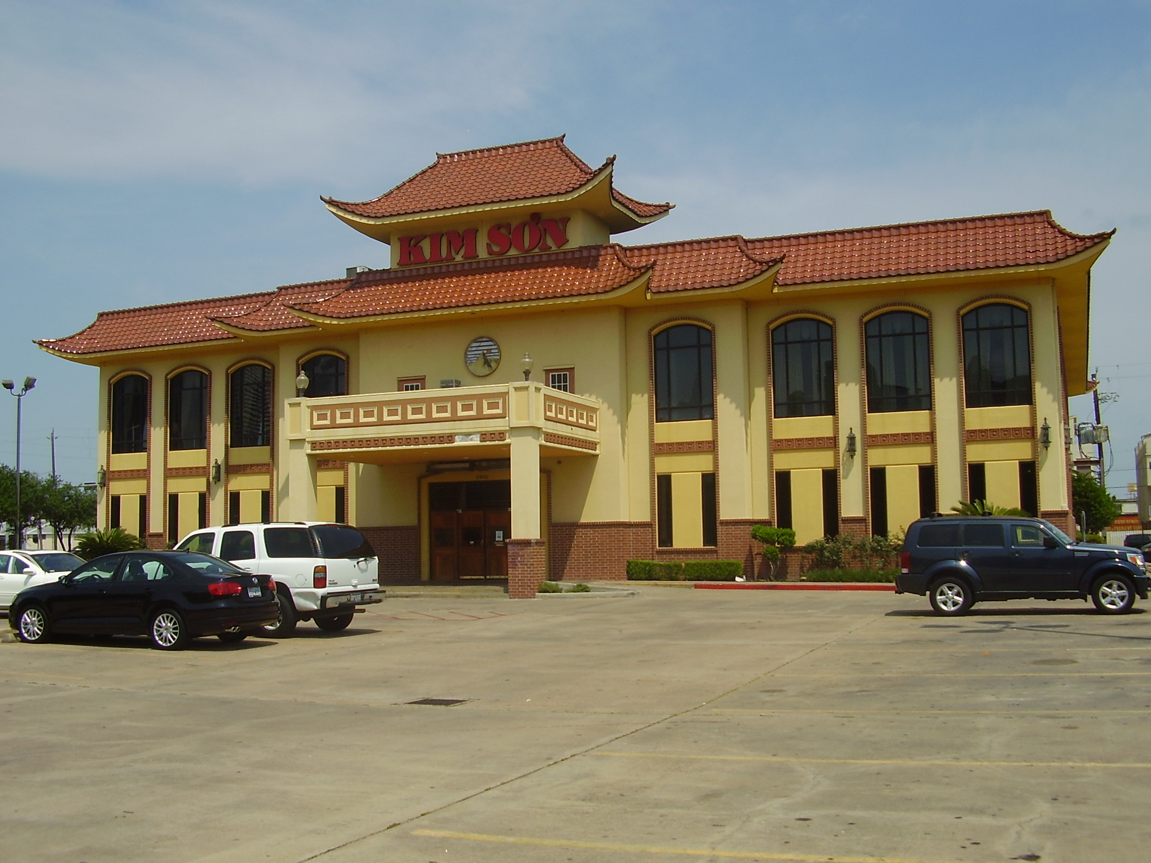 Kim Sơn restaurant and headquarters - 2001 Jefferson, Houston, Texas, 77003, USA